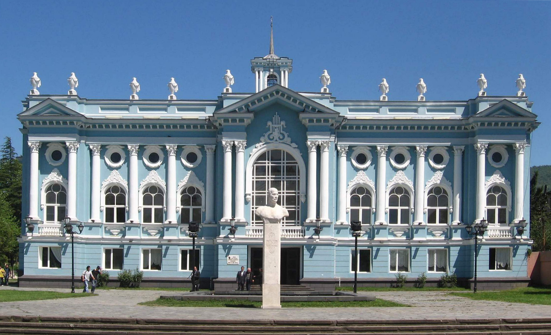 Akaki Khorava State Theatre, Senaki, Georgia. Architect Vakhtang Gogoladze, built in 1953-1959.